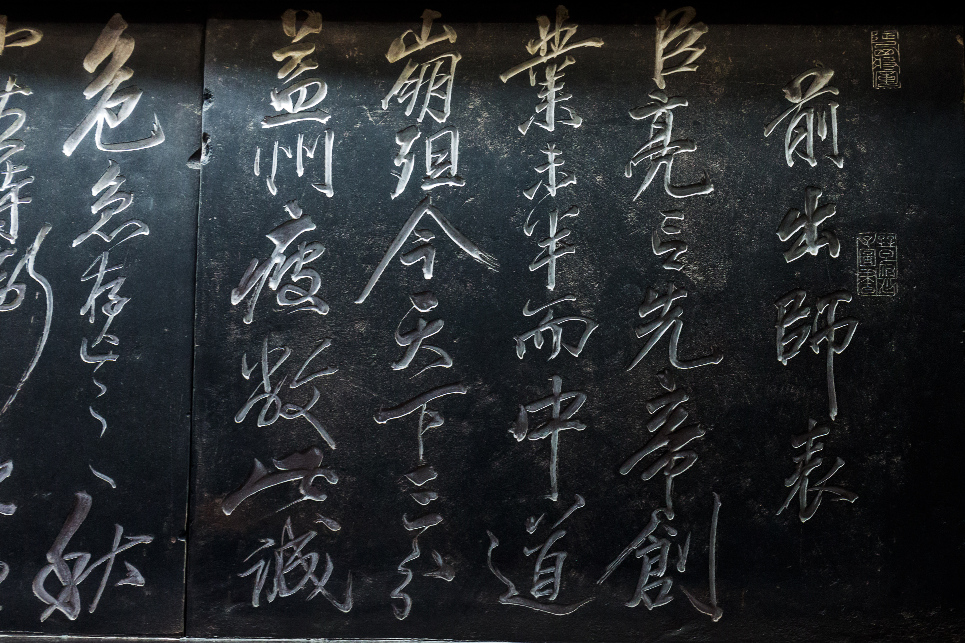 Former Chu Shi Biao (前出師表)